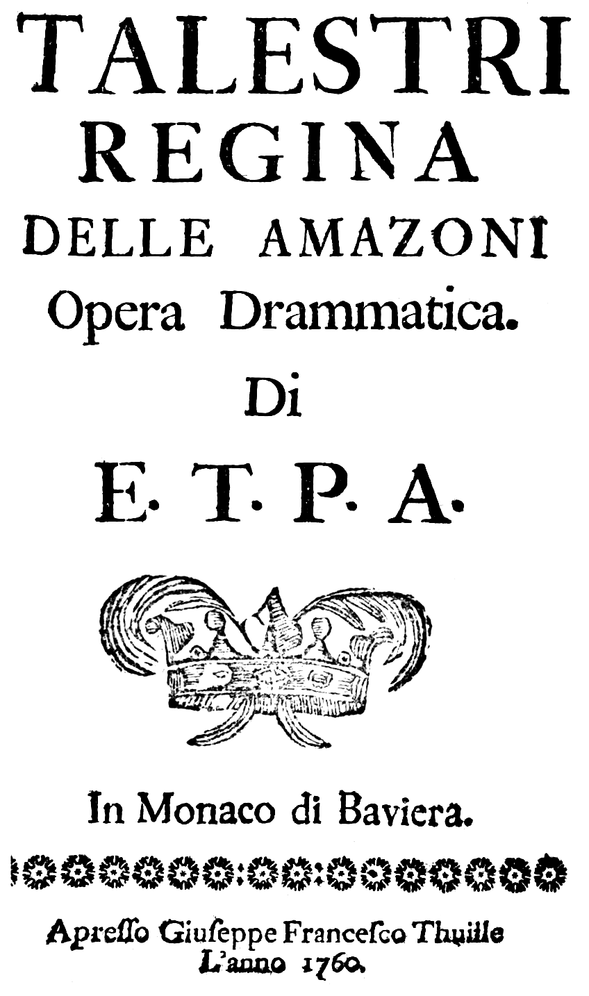 Maria Antonia Walpurgis - Talestri - titlepage of the libretto - Munich 1760